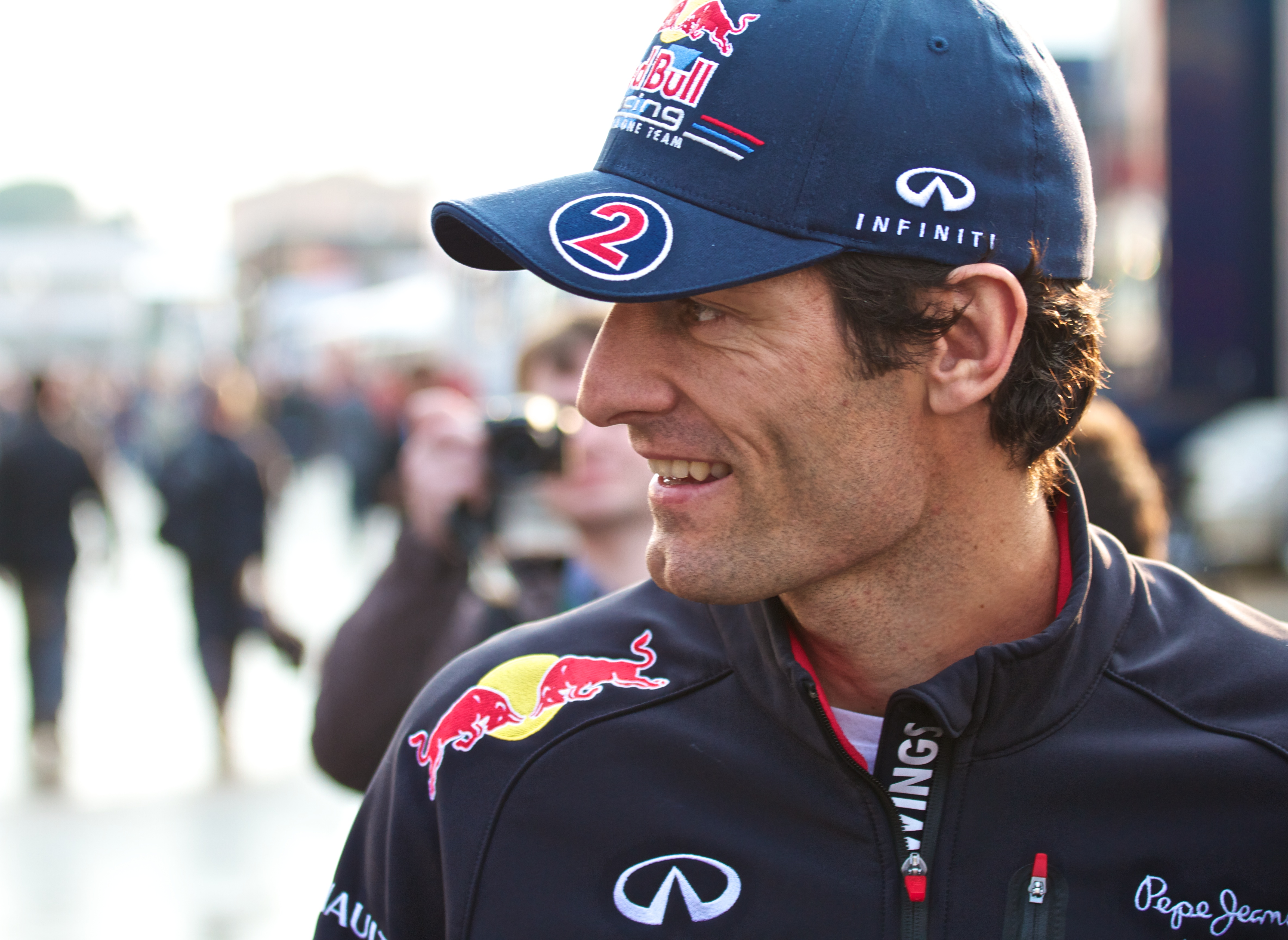 Mark Webber poses for a photo with a fan in the paddock